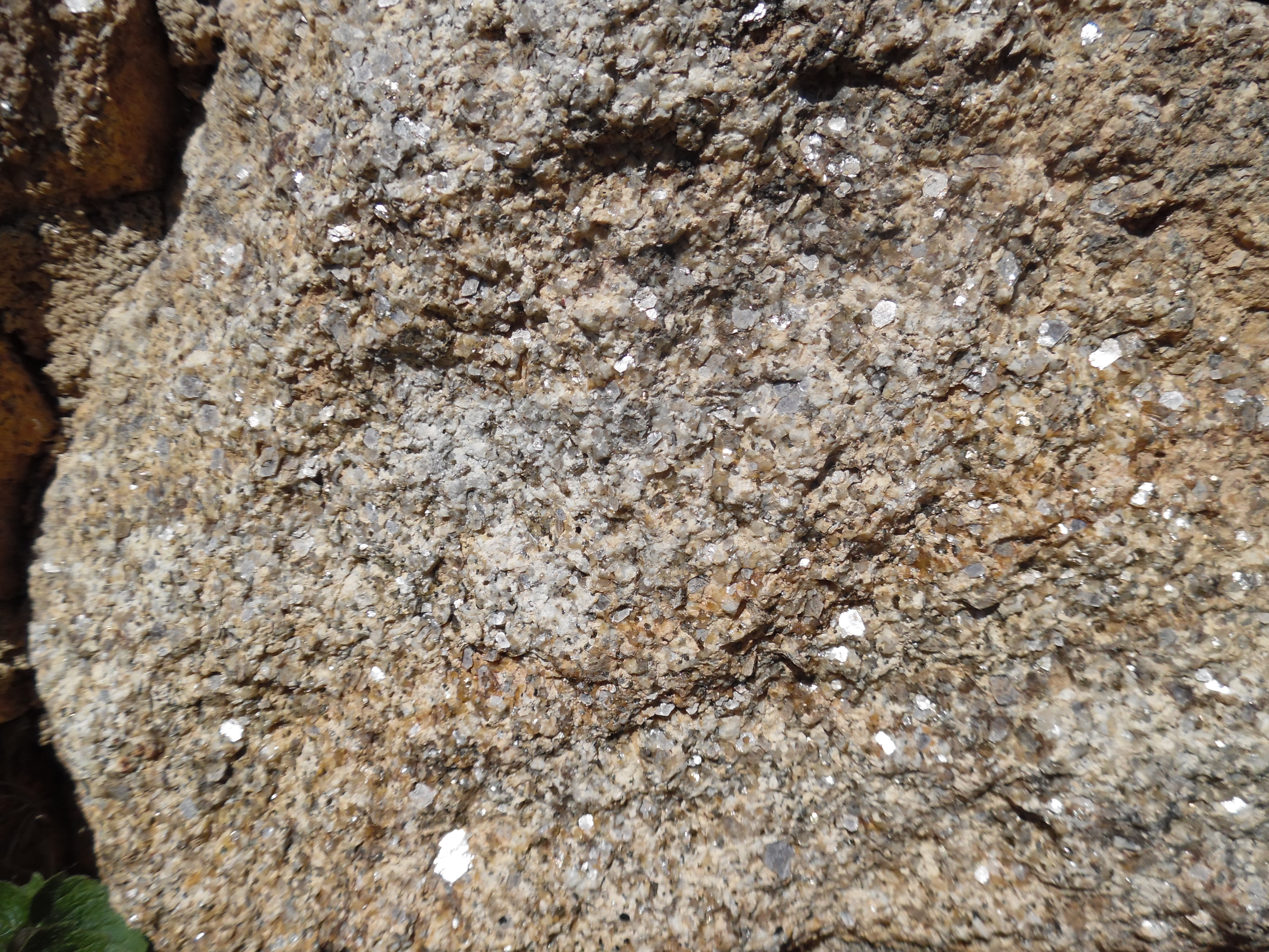 Coarse-grained normal facies of the Saint-Mathieu Leucogranite